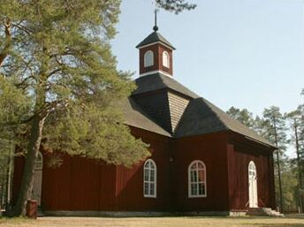 Pudasjärvi church in Pudasjärvi, Finland